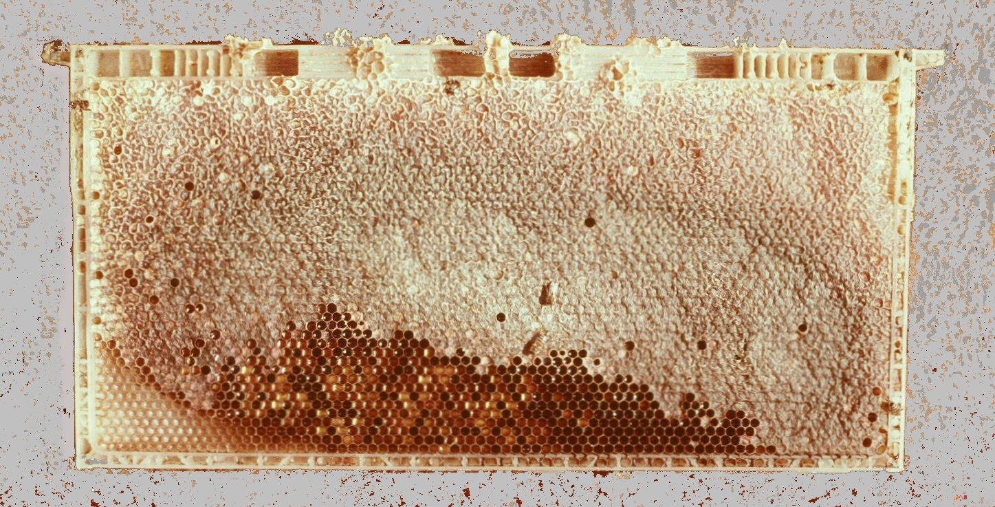 Honeycomb on plastic base and plastic frame. sealed honey and some pollen.